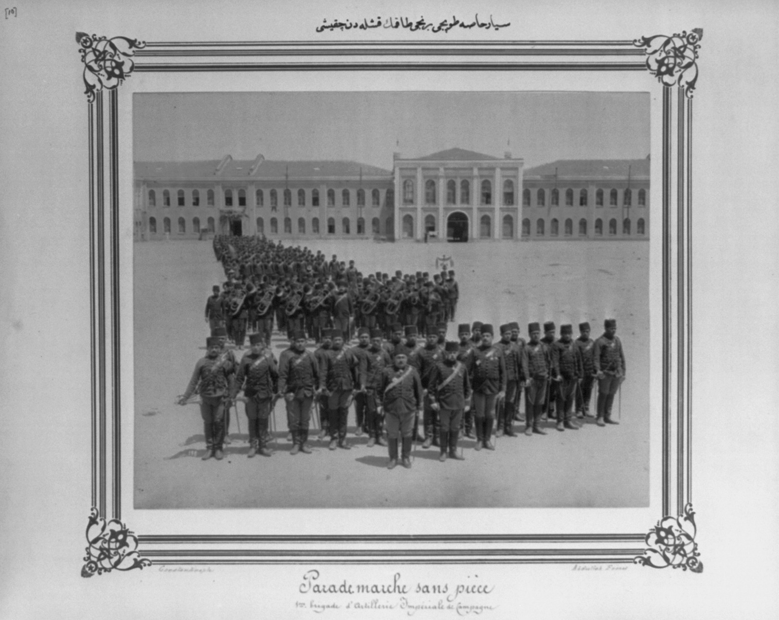 [The sortie of the First Mobile Artillery Bodyguard Brigade from the barracks] / Constantinople, Abdullah Frères.